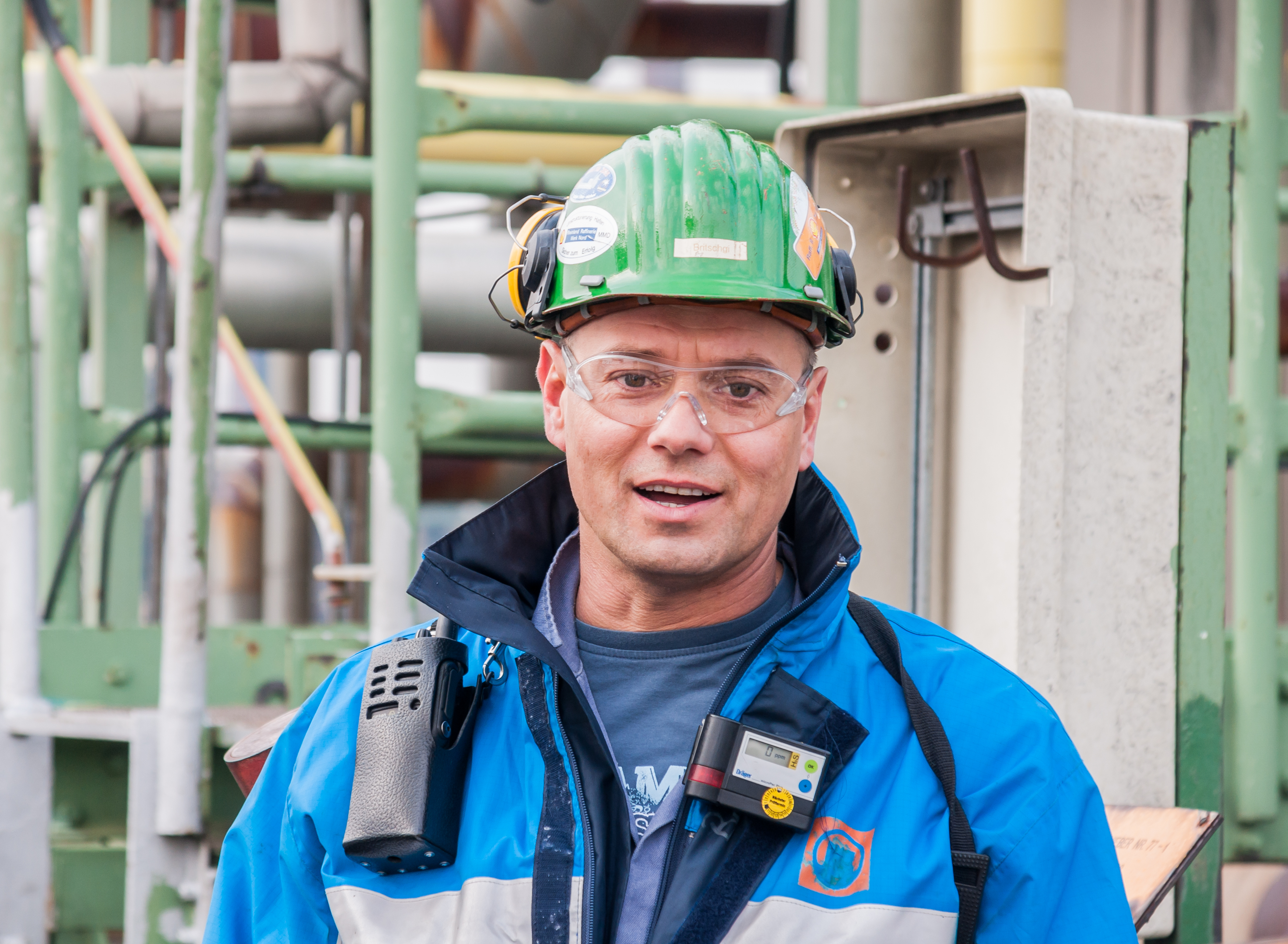 Cologne, Germany: Industrial Inspector with personal protective equipment safety helmet, safety glasses, gas warner and inflammable jacket